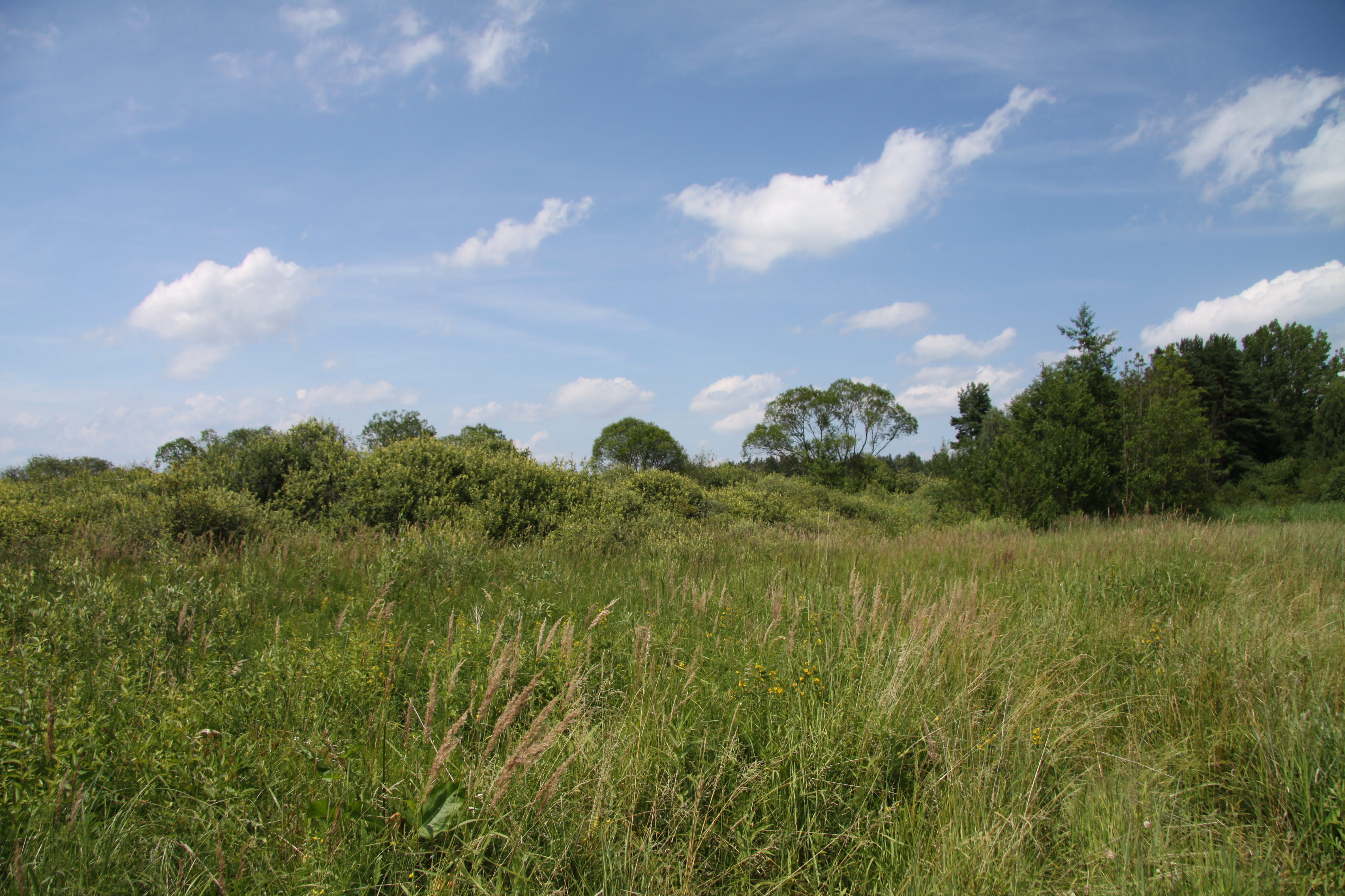 National nature reserve Velký a Malý Tisý in Jindřichův Hradec District, Czech Republic